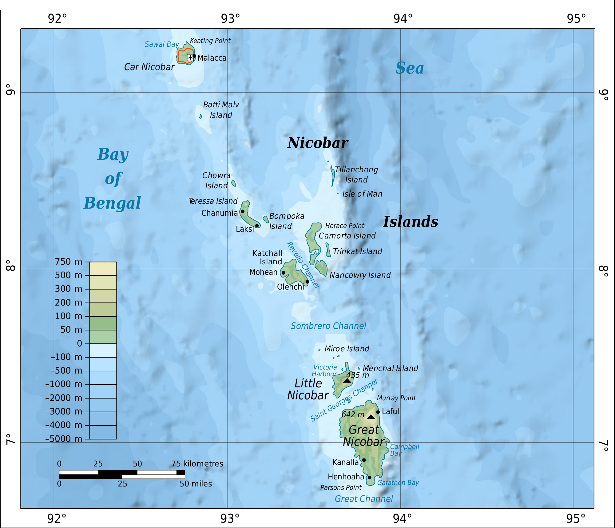 Map of Nicobar Island, derived from: this map